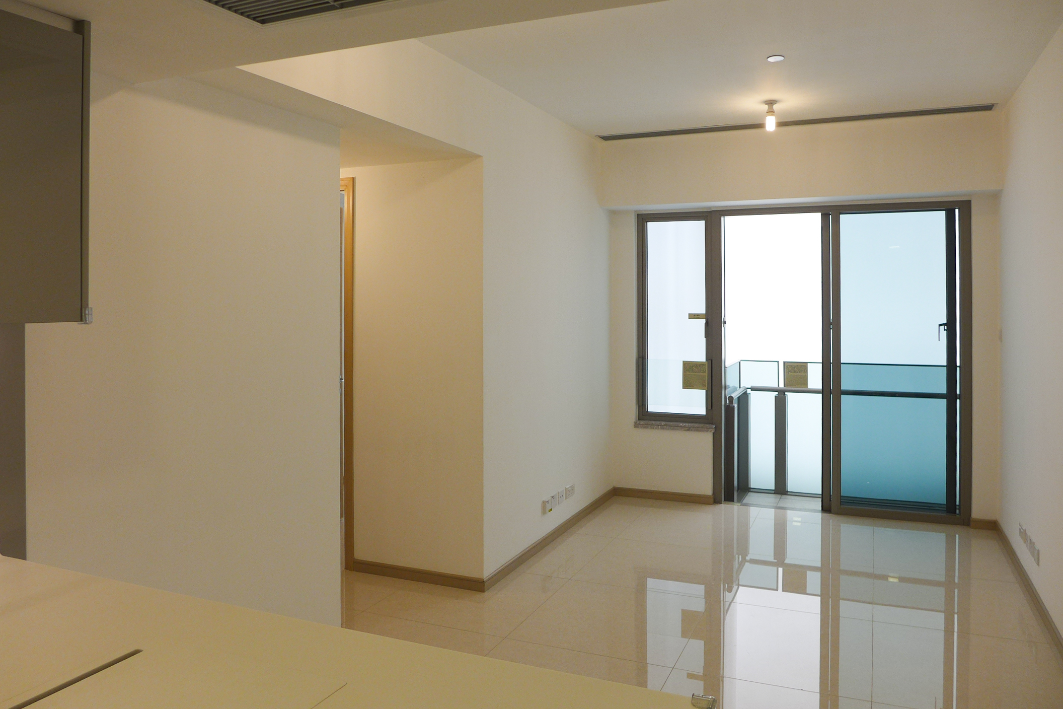 Ocean Pride 2 rooms showflat